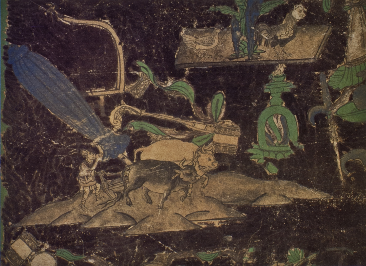 Yulin Caves, Gansu, China